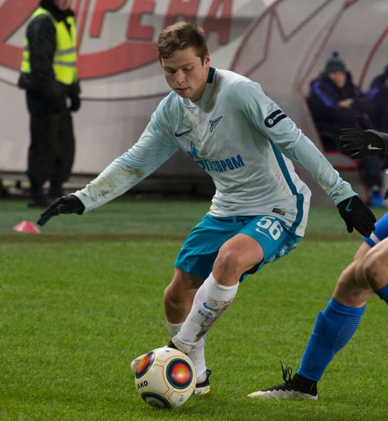 Danil Krugovoy with FC Zenit-2 St. Petersburg in a game against FC Dynamo Moscow.